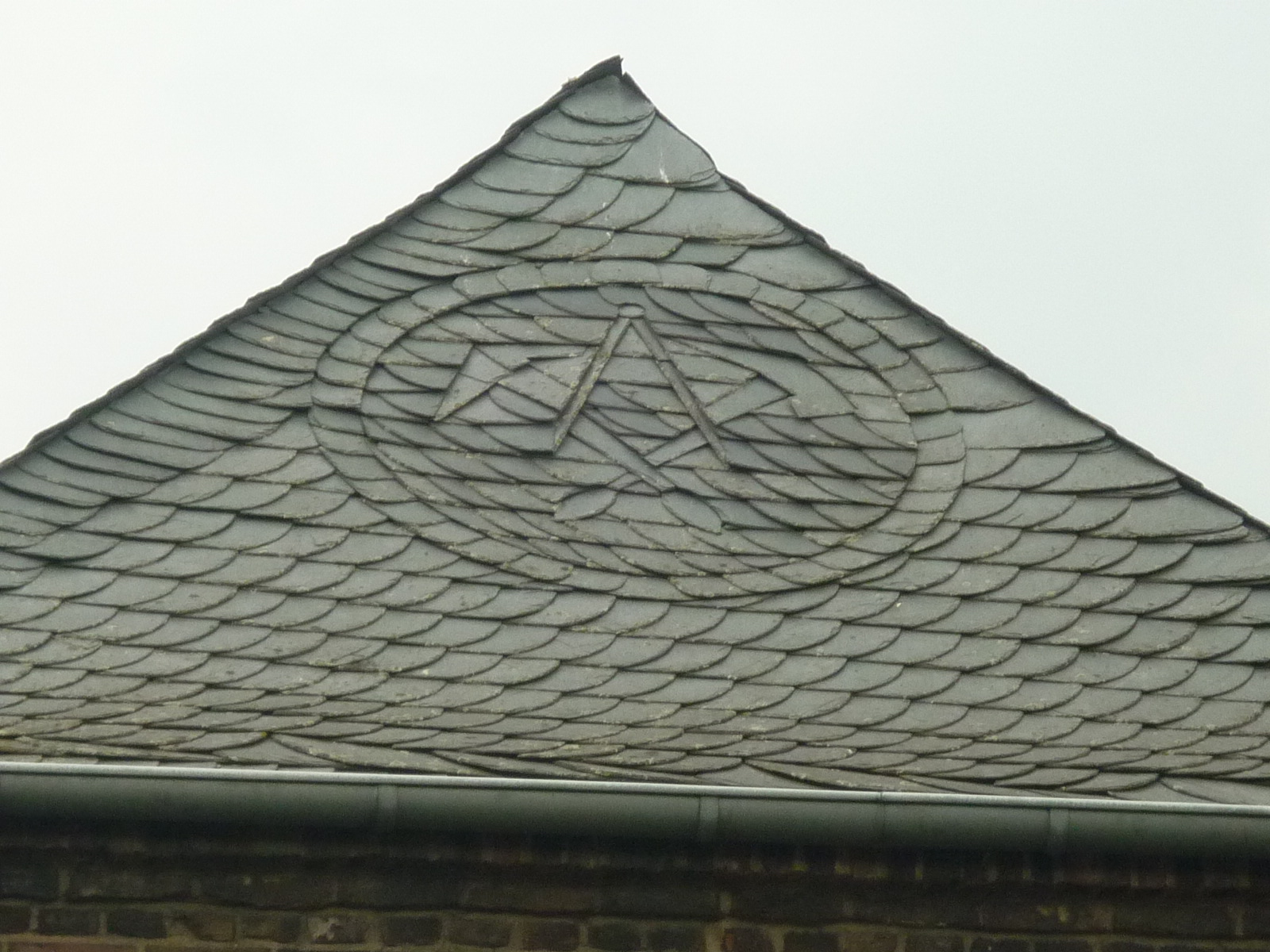 Guild emblem of the roofers as an ornament in a slate roof with cover (sea bush, district Lank-Latum, monument Van Hague-yard, main road 19 (Google machine translation)